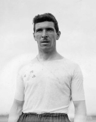 Athlete John Daly